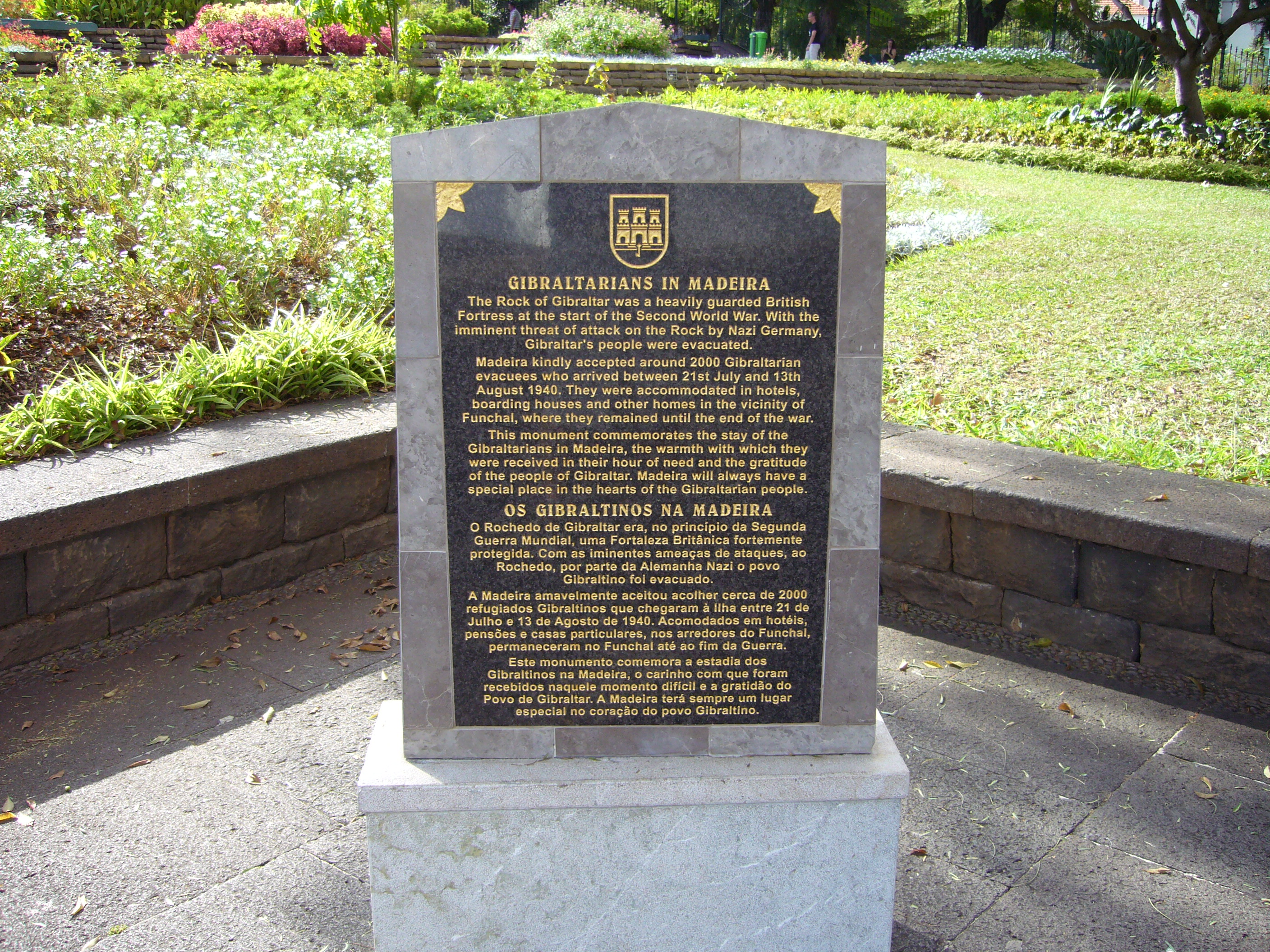 Memorial plaque commemorating the stay of Gibraltarian civilians at Madeira during WW2.